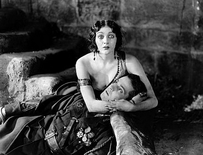 Still for the American film Trifling Women (1922) with Barbara La Marr and Ramon_Novarro.